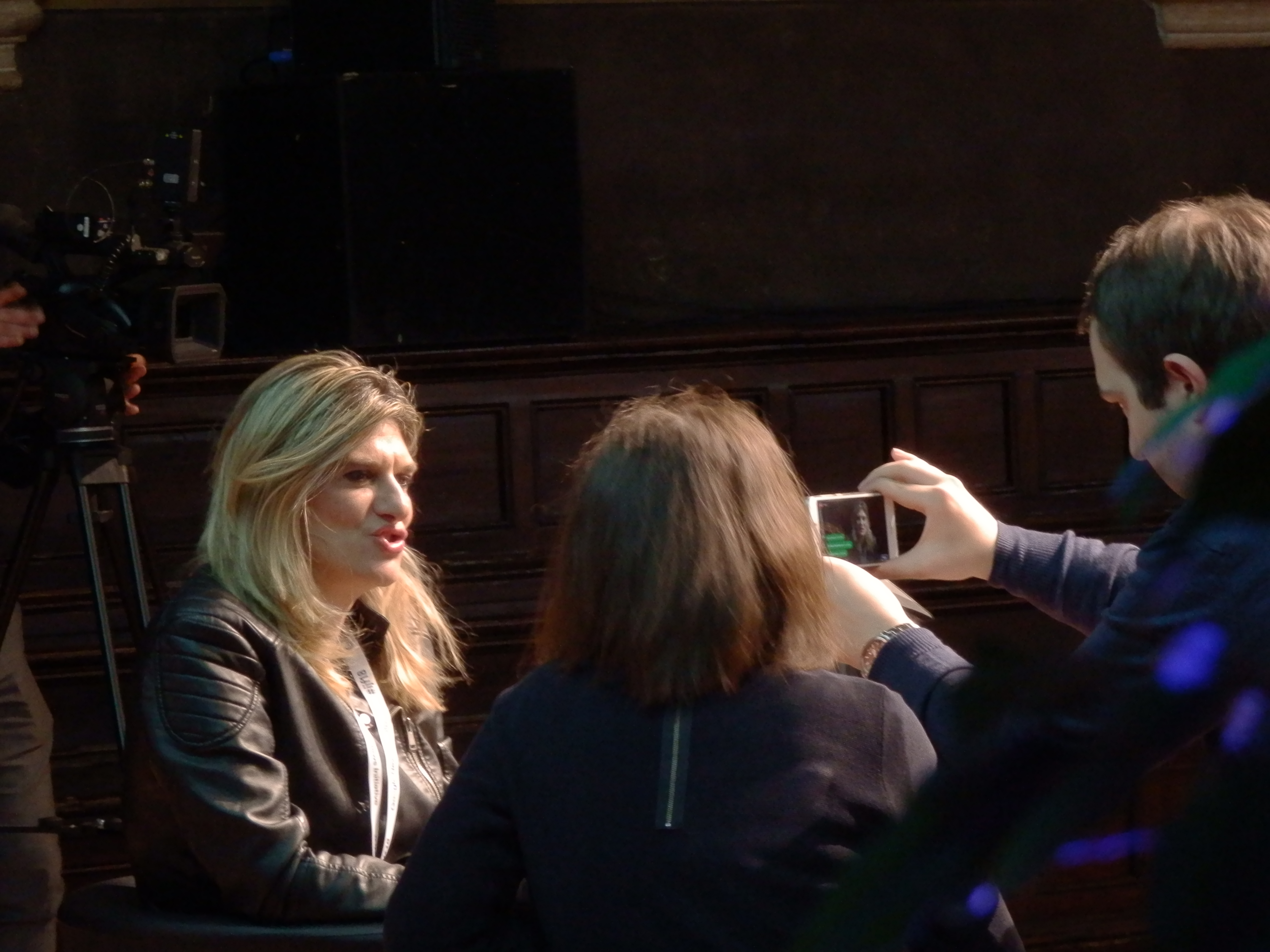 Interview at Federica Angeli, before the conference titled "Giornalisti in prima linea e cronisti sotto scorta", Perugia, Sala dei Notari.